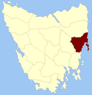 Location of the land district (formerly county) within Tasmania.